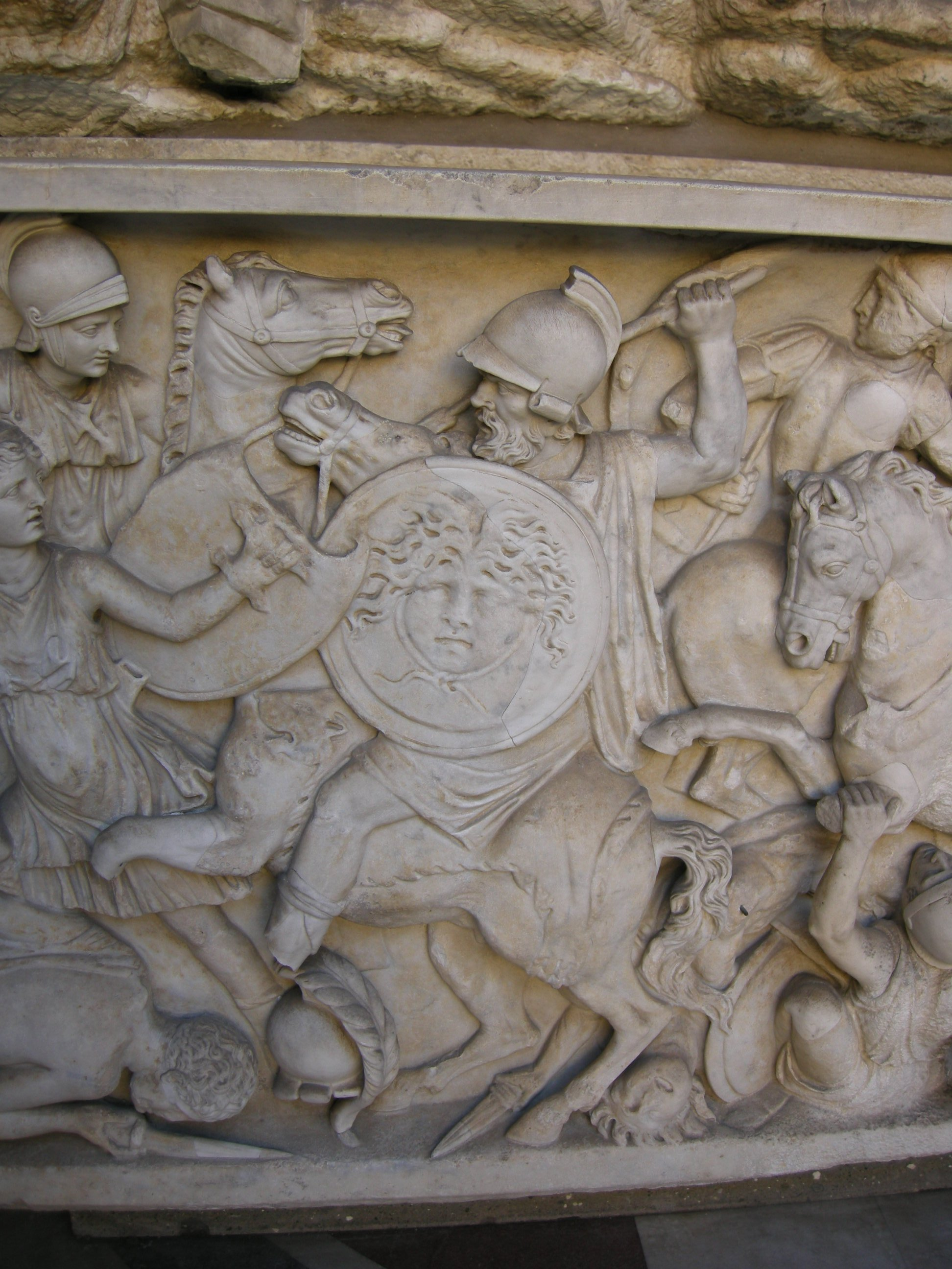 Amazonomachia: fight between Greek warriors and Amazons. Marble, sarcophagus panel, ca. 160–170 CE. Served as basin for the Tigris fountain.